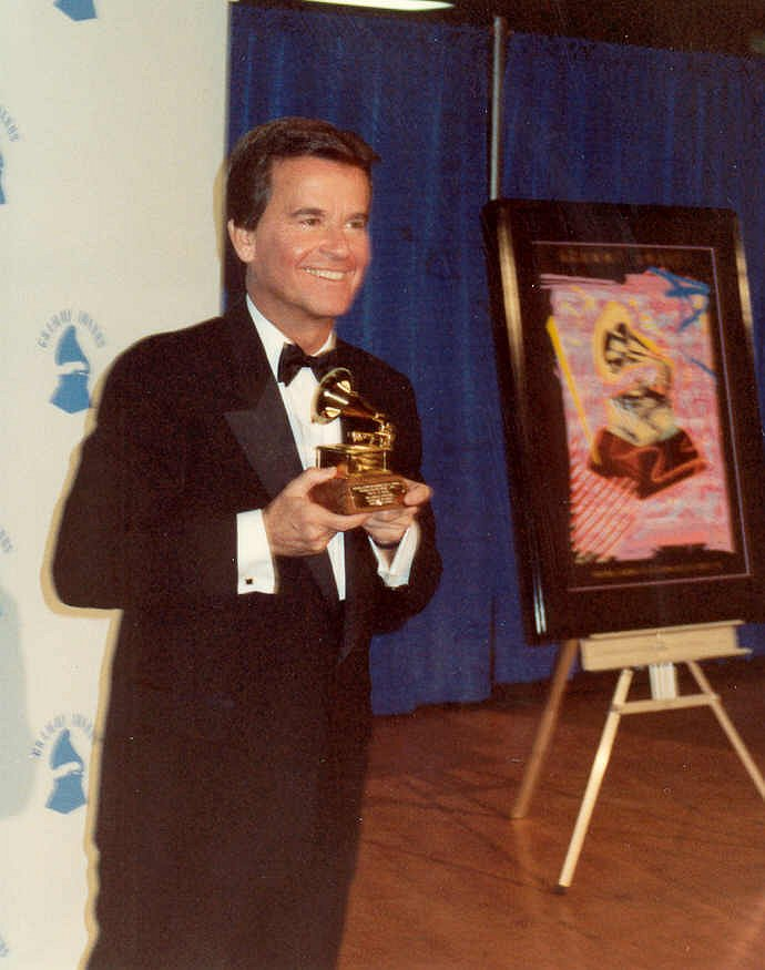 Dick Clark backstage during the Grammy Awards telecast 2/21/90